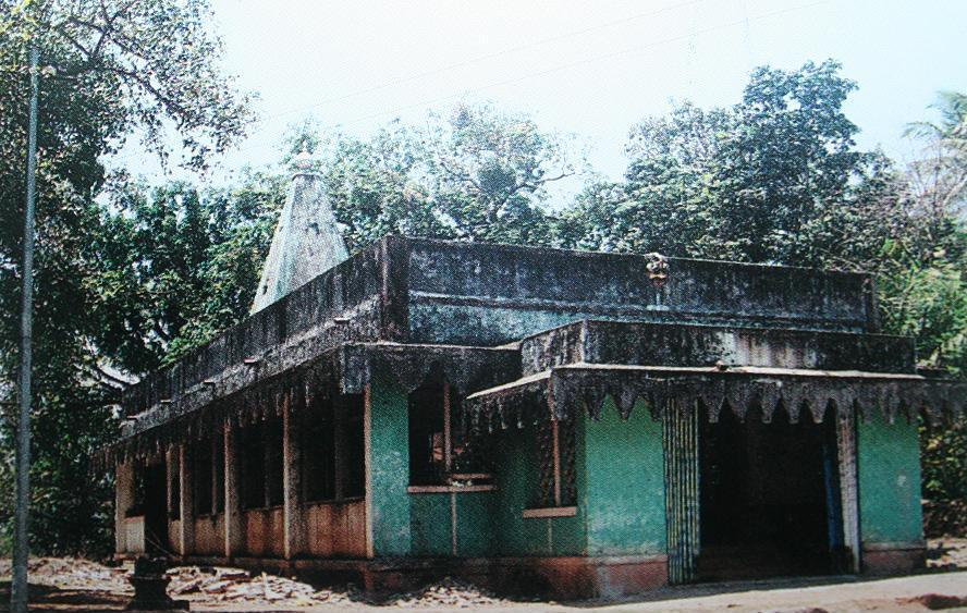 Shri Gaudapadacharya Mutt, Ankola Branch